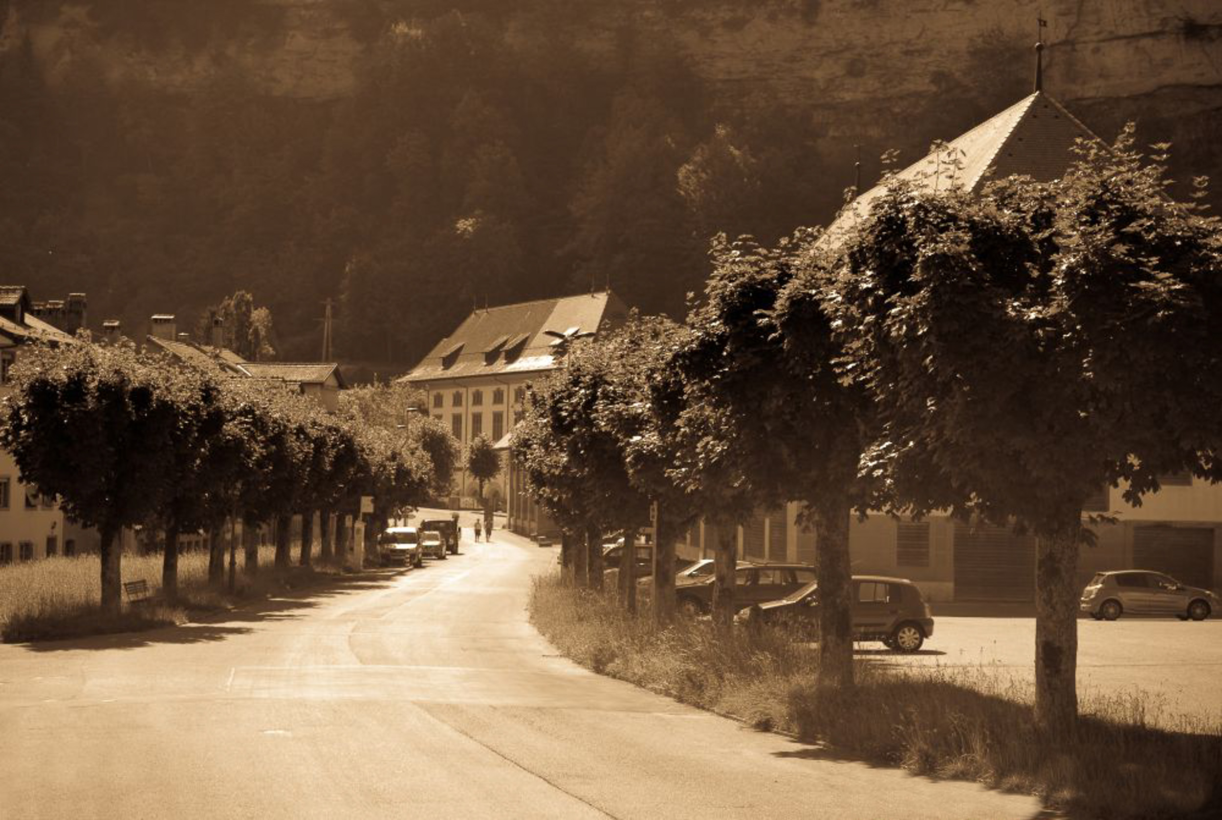 Nostalgic view of a street in Fribourg, Switzerland